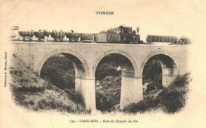 600 mm gauge Phủ Lạng Thương-Lạng Sơn line in Vietnam